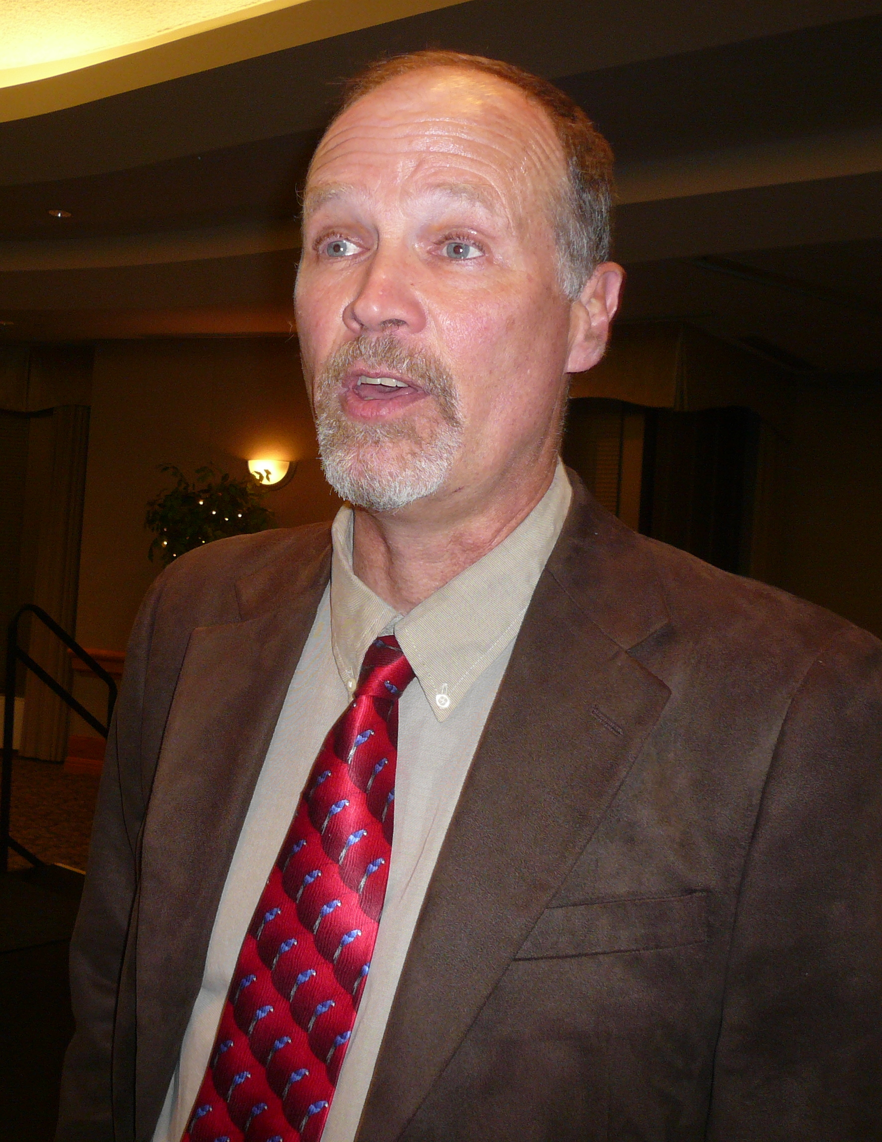 American biologist Kenneth R. Miller, at St. Catherine University where he spoke in 2009.[1]